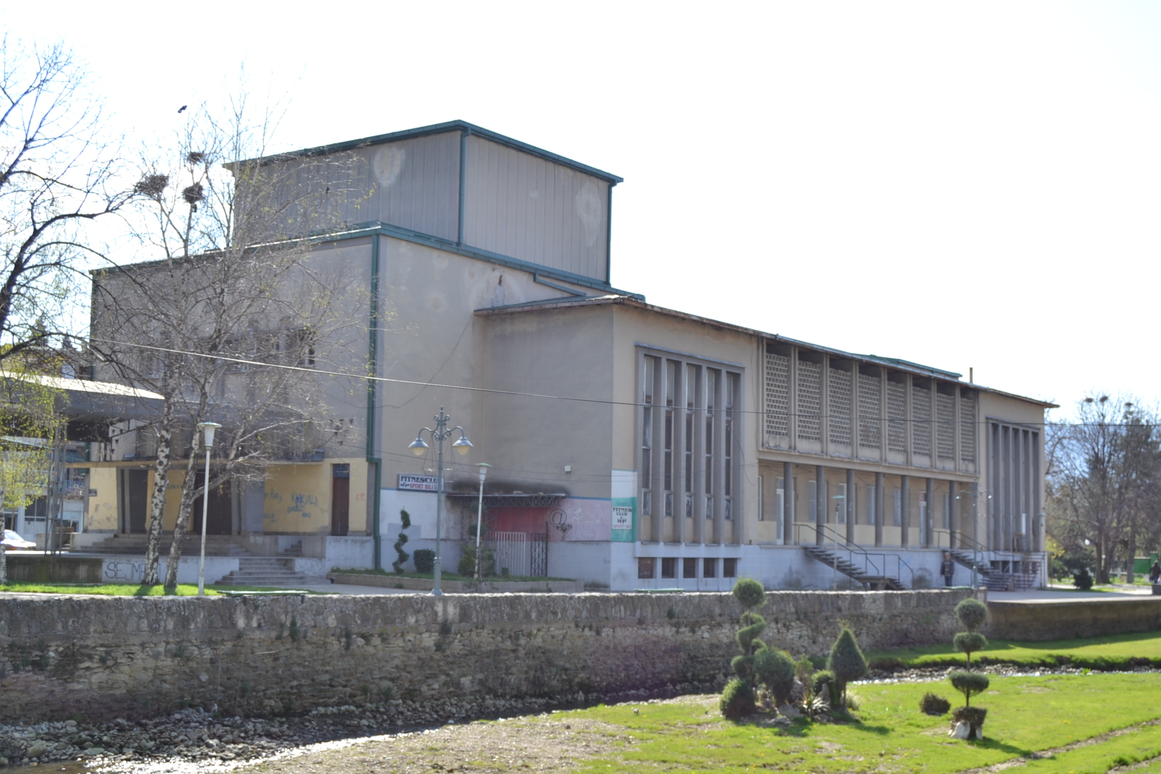 CK Beli mugri, Kocani, Macedonia